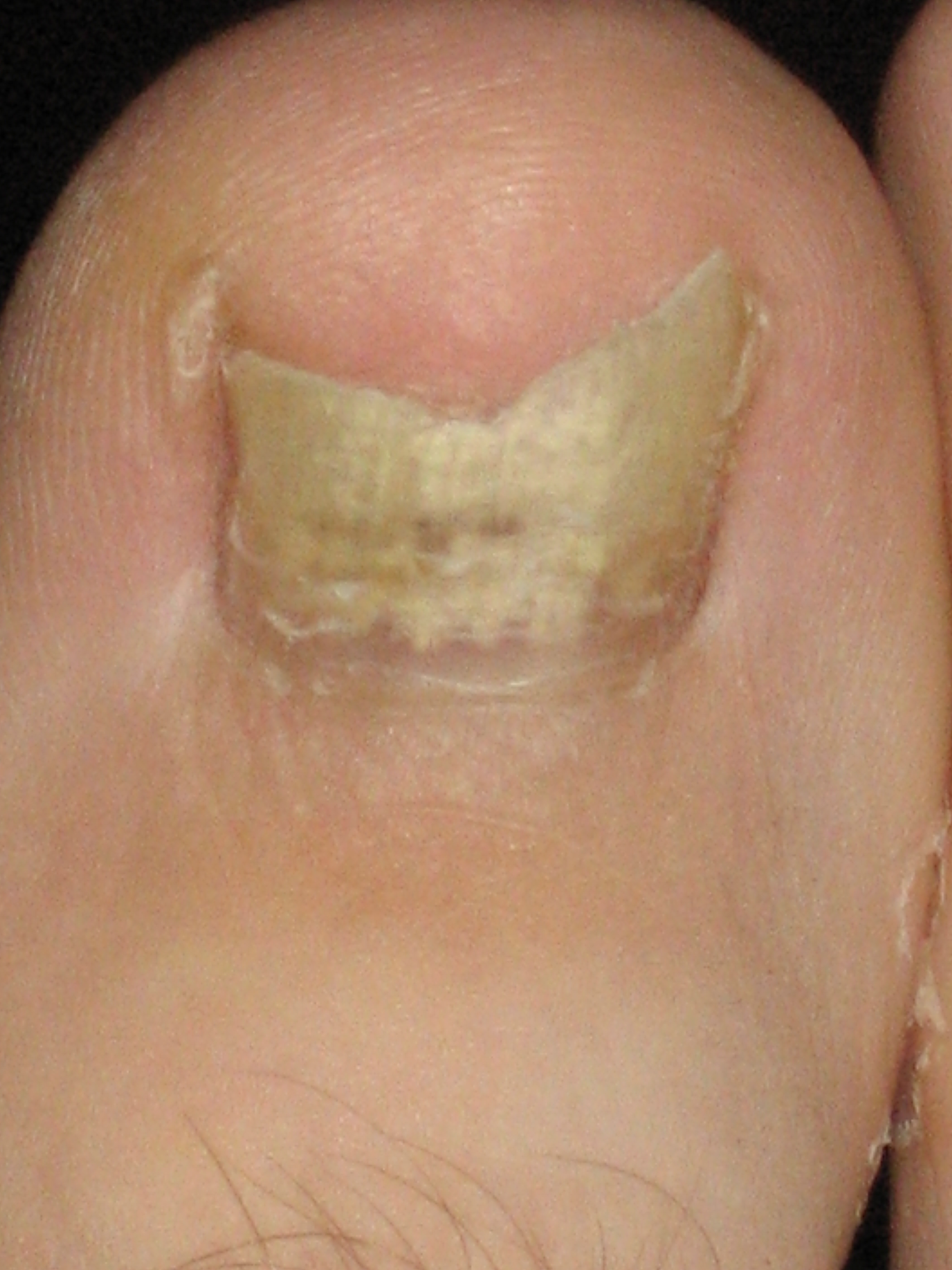 i took it myself